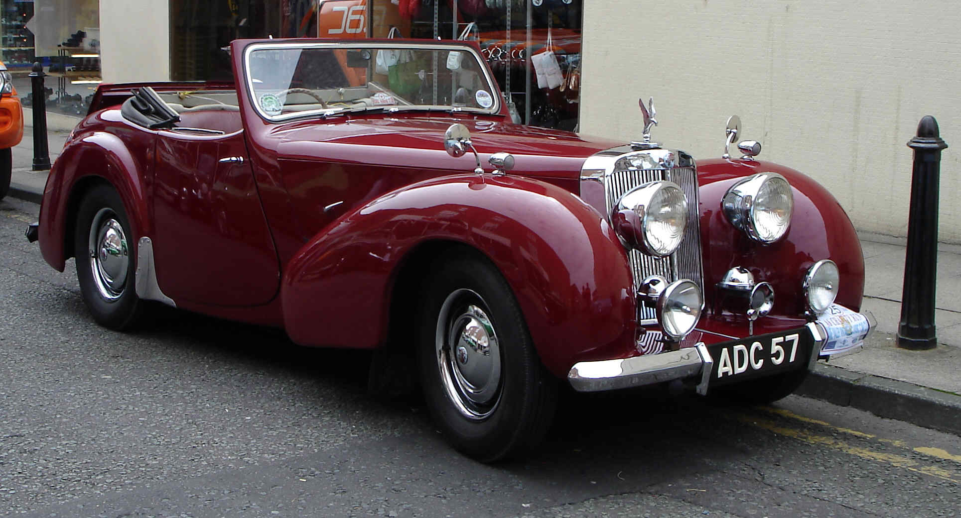 Triumph 1800 Roadster photographed by myself 5th August 2006 in Macclesfield UK